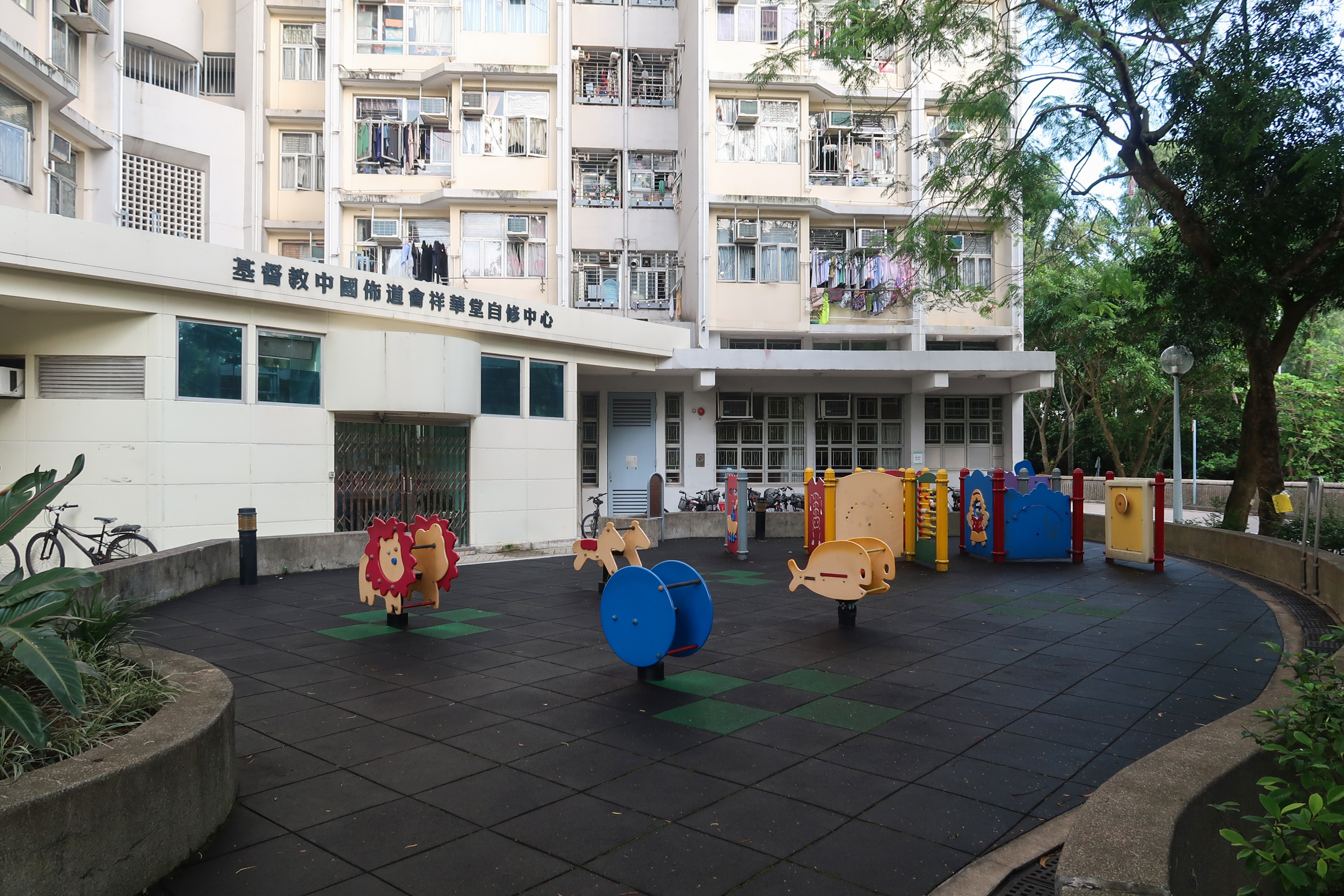 Ka Fuk Estate Small children play area